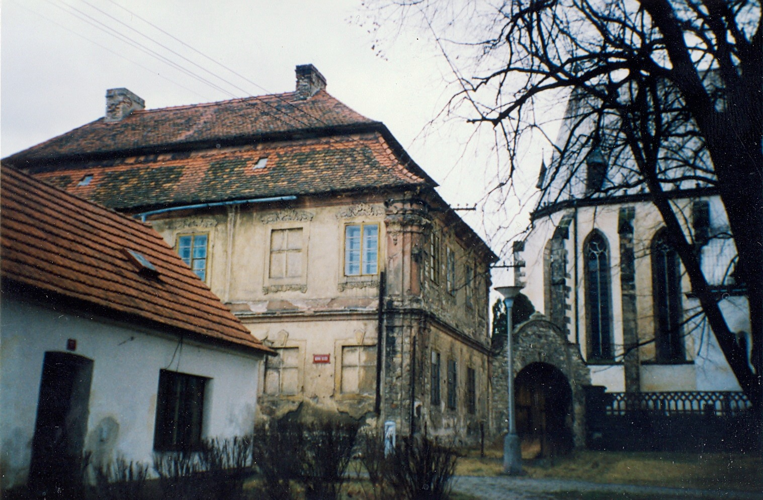 The Rectory in Slavětín